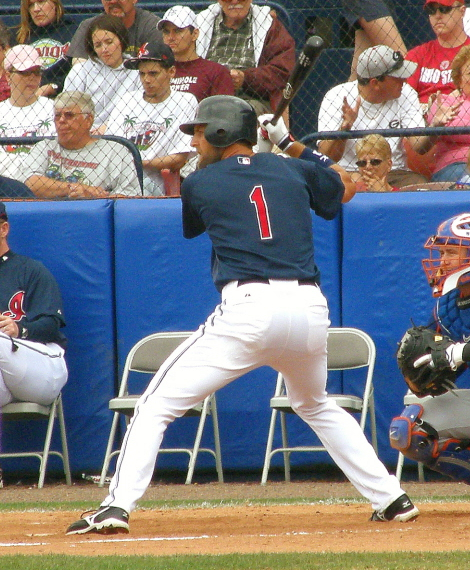 Casey Blake